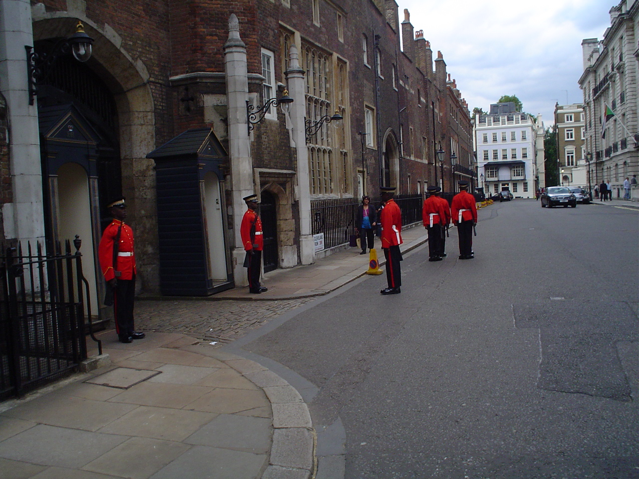 New sentries of the Jamaica Regiment being posted outside St James' Palace.